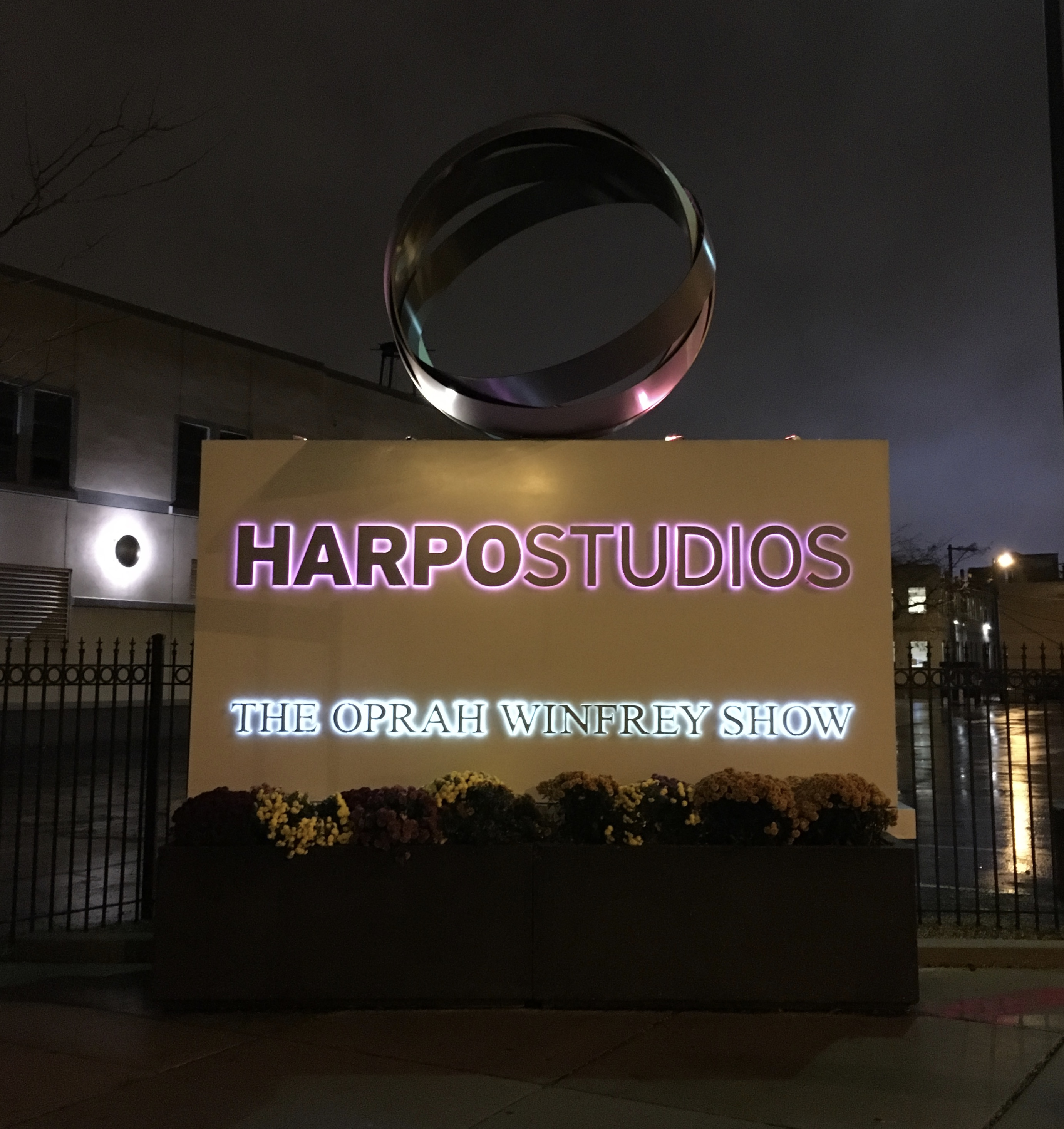 Harpo Studios Chicago, 2015 - Oprah